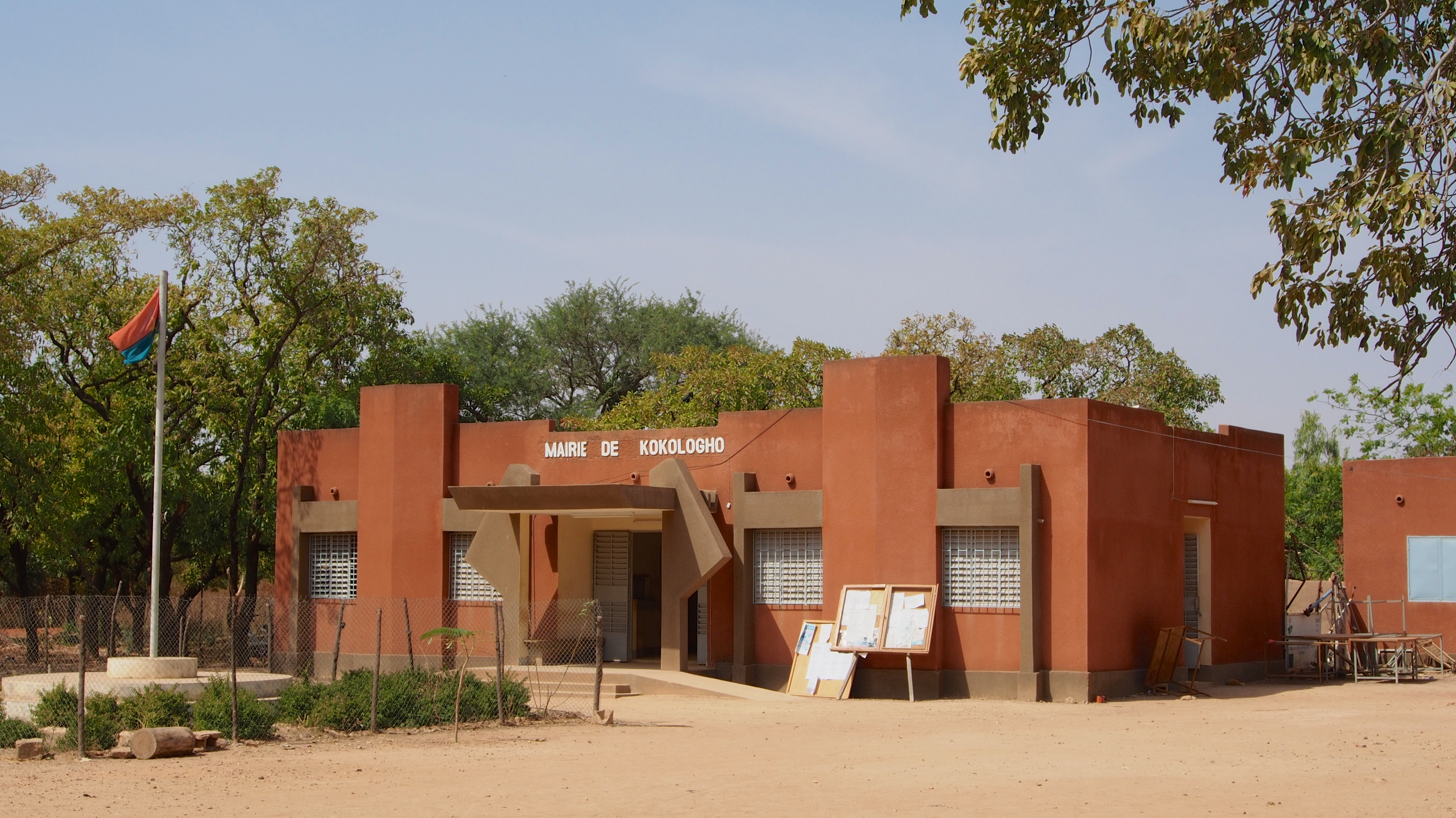 The town house of Kokologho, Boulkiemdé Province, Central-West Region, Burkina Faso.